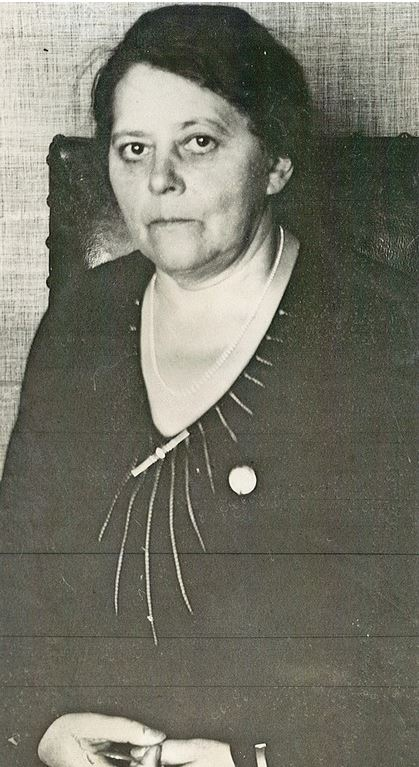 Amalie Øvergaard (1874–1960). Leader of the Norwegian Housewifes' Asscoation between 1934 and 1946. Born as Amalie Constance Angell in Sørreisa, Troms.